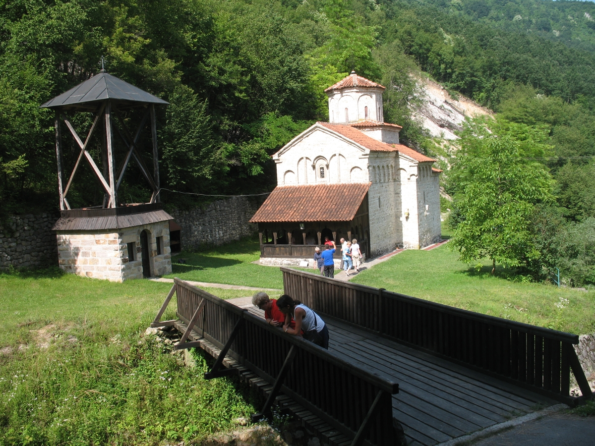 Church in Monastery Klisura (Gorge)/Dobrača,Arilje municipality,Serbia.